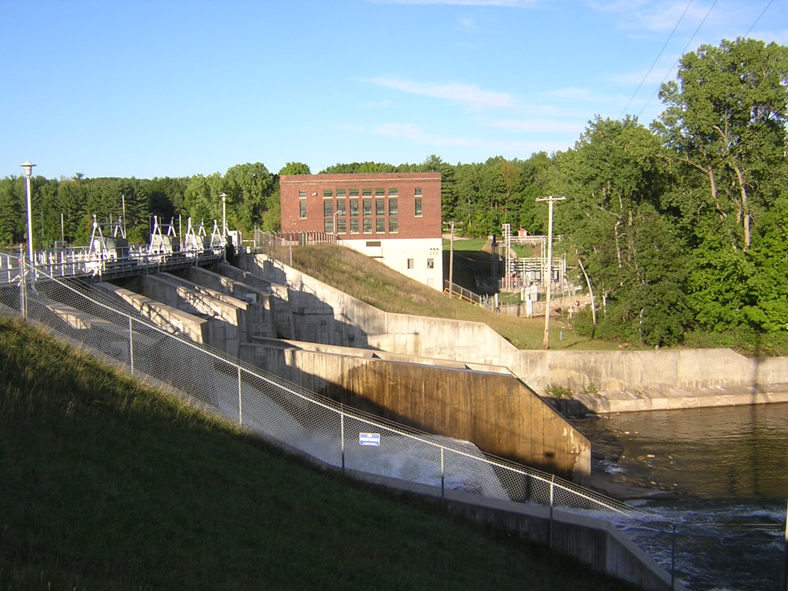 A view of the Rogers Dam, a dam and powerplant complex, built 1906, on the Muskegon River in Mecosta Township, Newaygo County, Michigan. This image is of the spillway and powerhouse, taken just downstream of locationA on the locator map at right, shot to the NE